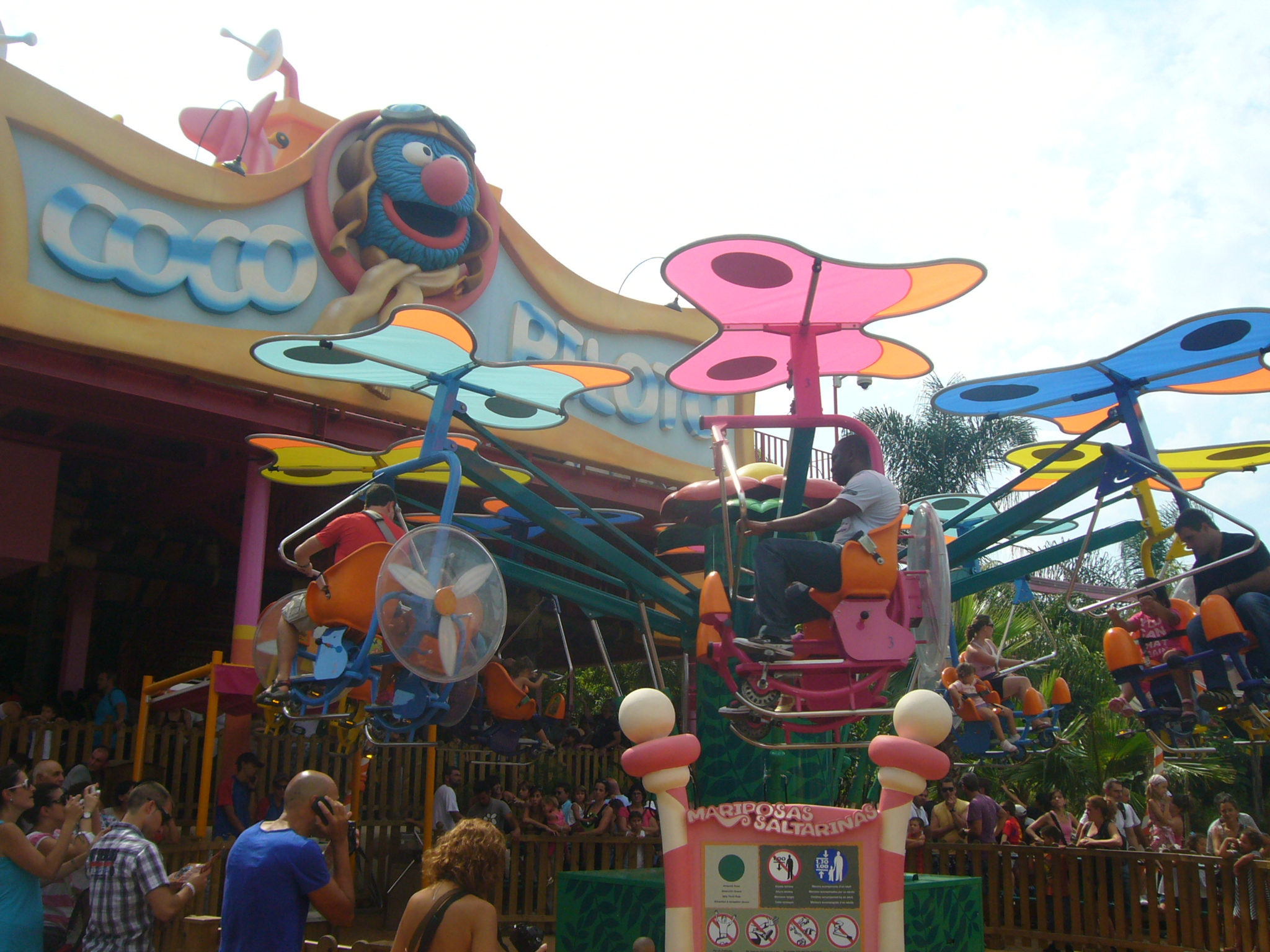 "Mariposas saltarinas" ride, at SésamoAventura